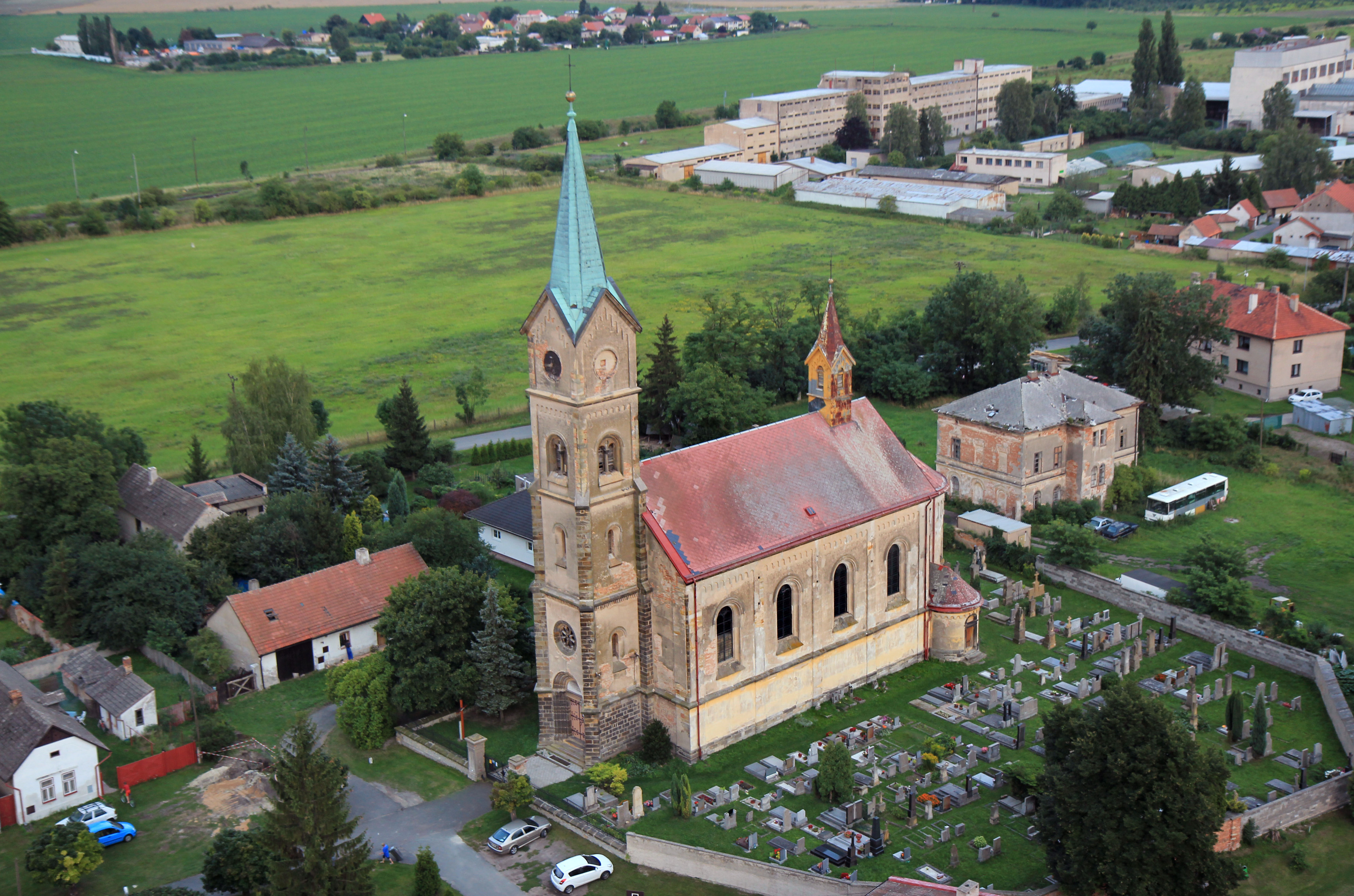 Saint Wenceslas Church in Veleliby, part of Dvory village, Czech Republic